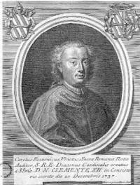 Cardinal Carlo Rezzonico, future Pope Clement XIII